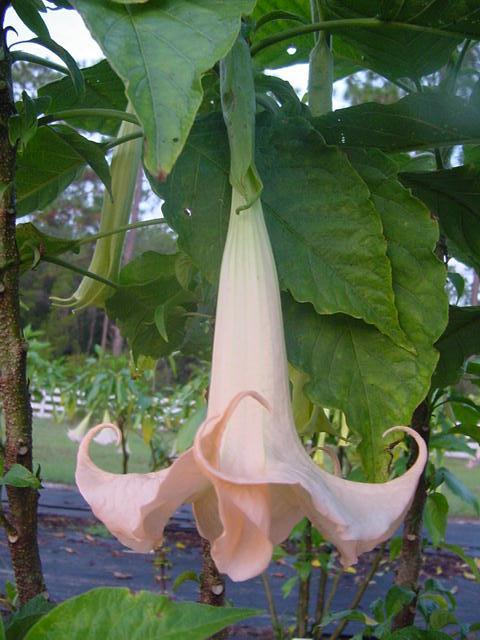 Brugmansia versicolor wild form